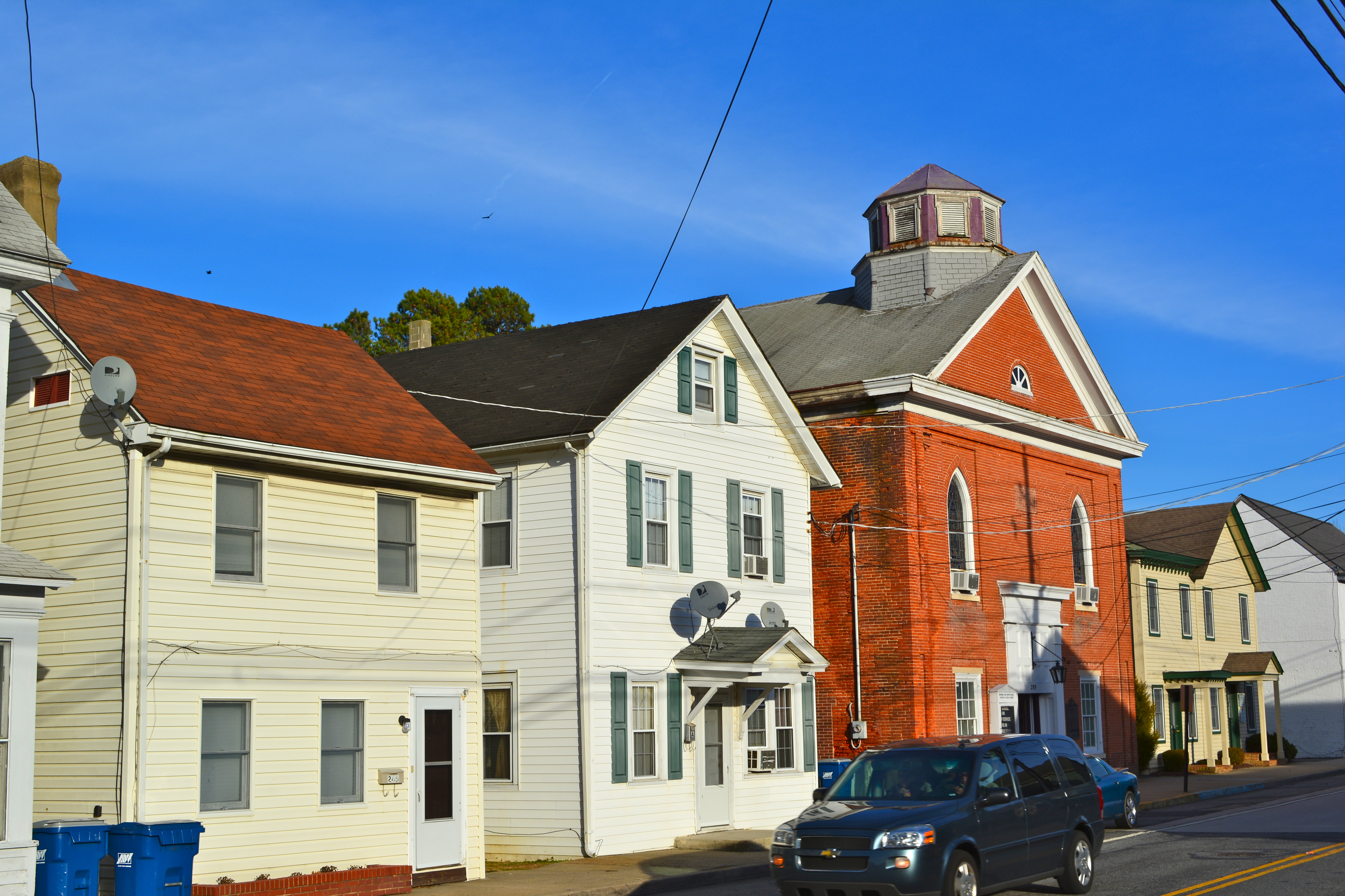 Buildings in Camden Historic District listed on the NRHP on September 17, 1974. The brick building is the Whatcoat Church. The historic district includes both sides of Camden-Wyoming Ave. and Main St. in Camden, Kent County, Delaware